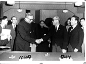 XP Divn./June.52,A22(iii) Shri K.K. Chettur, Indian Ambassador to Japan shaking hands with Mr. Katsuo Okazaki, Japanese Foreign Minister, after signing the Indo-Japanese Treaty of Peace in Tokyo. (Issued on June 18, 1952). (L. to R.) Shri T. Subrahmanyam; Shri K. Raghuramaiah; Shri Nardeo Snatak; Shri K.C. Sharma; Dr. Rajendra Prasad, President H.H. Rajmata Kamalendu Mati Shah; Shri R.S. Rao, Sardar Atma Singh Namdhari and Shri K.N. Desai.